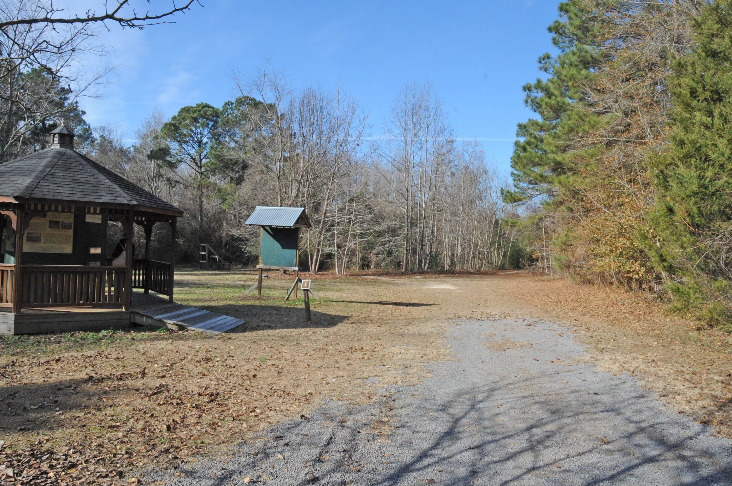 AKA AS THE CONFEDERATE STATES MILITARY PRISON OF FLORENCE. OPERATED FROM 1864 TO FERUARY 1865 AND HOUSED AS MANY AS 18,000 UNION SOLDIERS OF WHICH 2800 DIED. THIS GAZEBO APPEARS TO STAND ON THE SITE OF THE STOCKADE